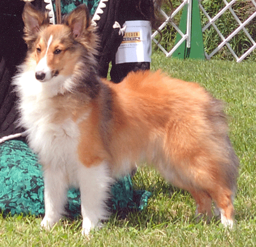 Show Win Photo of a Shetland Sheepdog